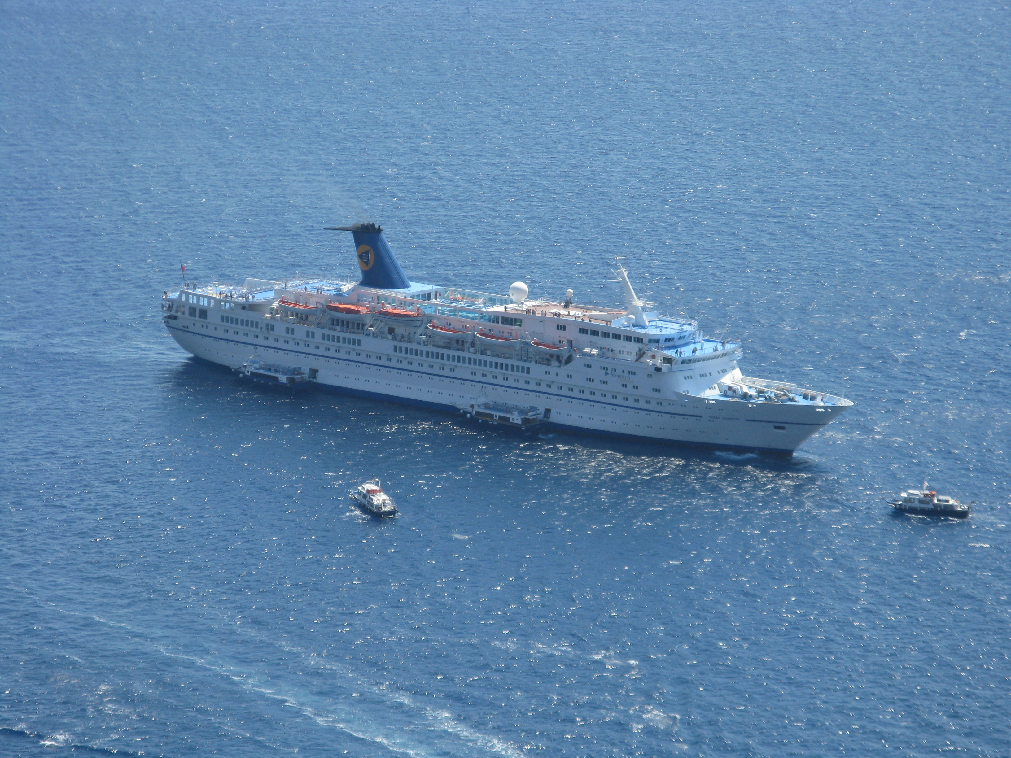 Ocean Countess anchored off Santorini. July 10, 2008 @ 3:30pm local time. Unaltered original. IMO Number: 7358561 MMSI Number: 255724000 Callsign: CQRH Length: 163 m Beam: 22 m